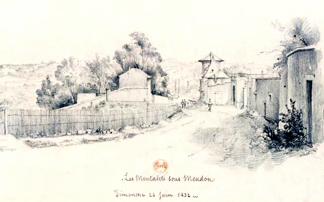 Les Montalets sous Meudon Art work : 1832